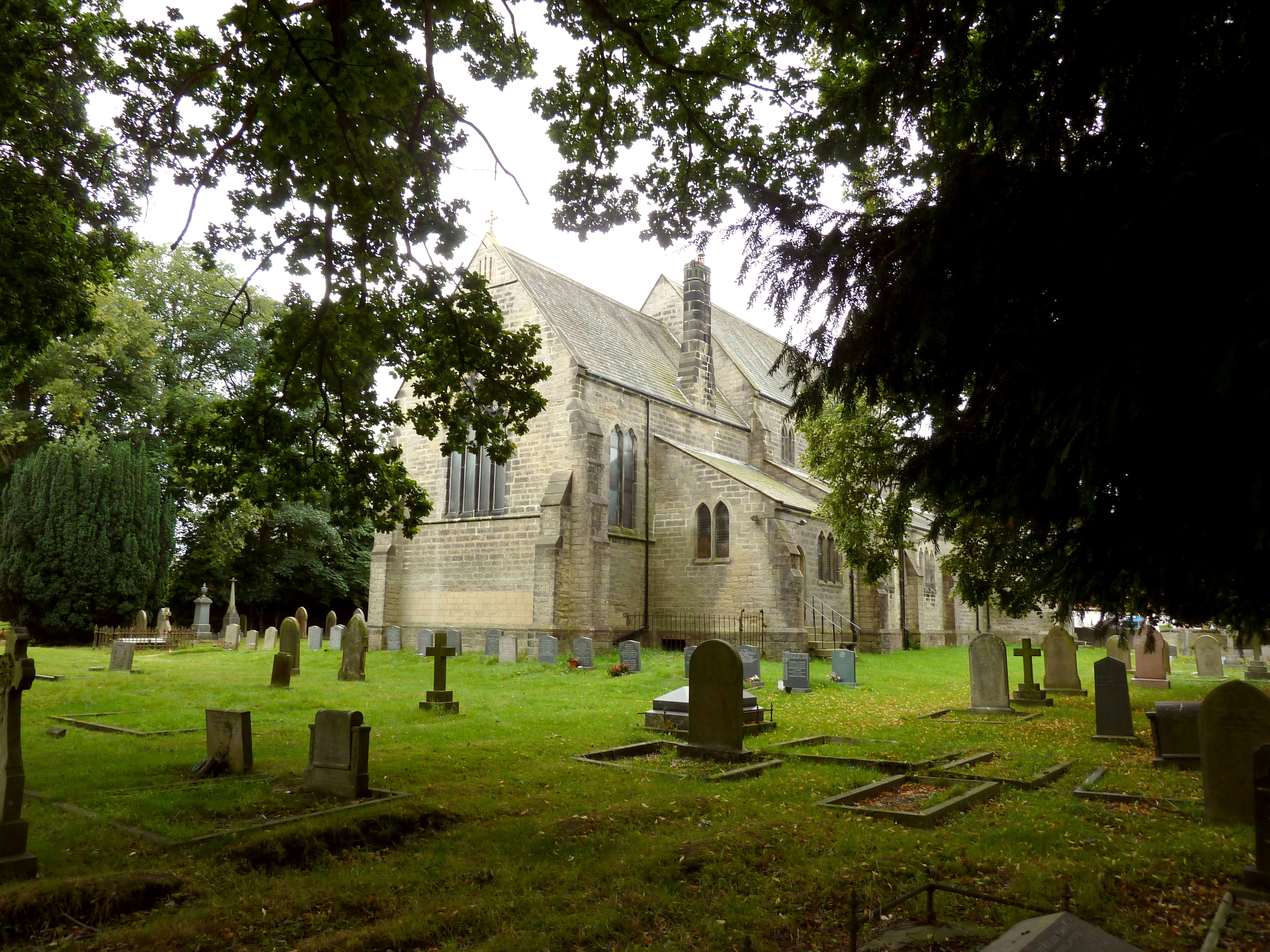 Church of St Thomas the Apostle, Anglican parish church at Killinghall, North Yorkshire, England. Designed by William Swinden Barber in 1879. North-east corner.